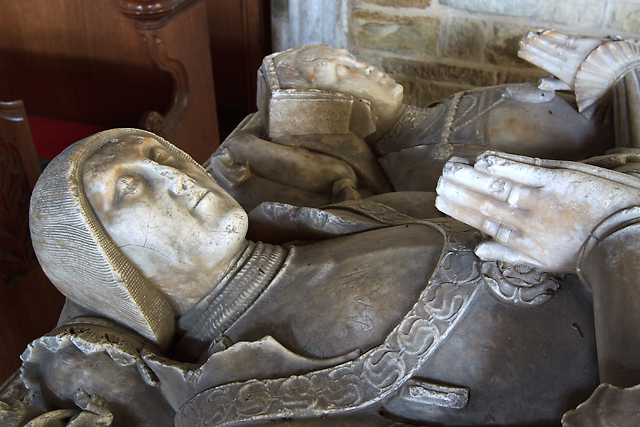 St John the Baptist church, Kinlet - tomb-chest of Sir John Blount & wife (detail)